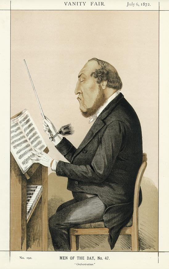 Caricature of Michael Costa (1808-1884). Caption read "Orchestration".